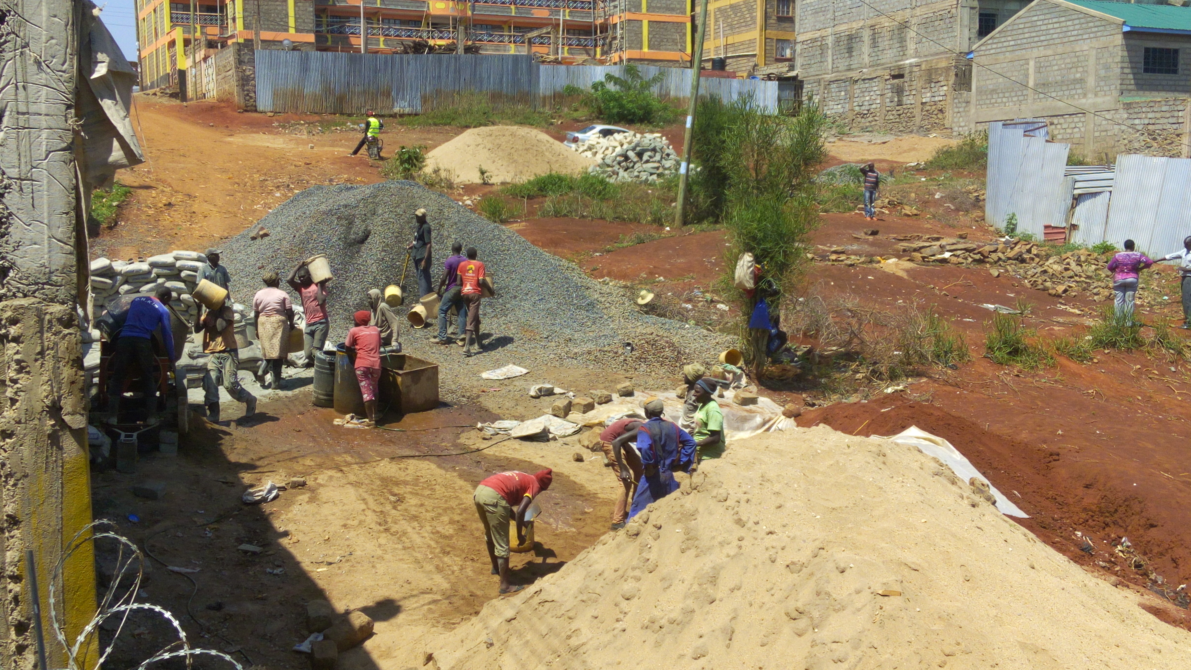 Images of construction workers preparing concrete mortar during the corrugation of a concrete slab in Embu County, Eastern Kenya, East Africa. Construction work was for a long time a reserve for men, but today women are making inroads into the job. Three women can be seen in these photos hauling water, sand, and ballast. This is an image of "African people at work" from Kenya